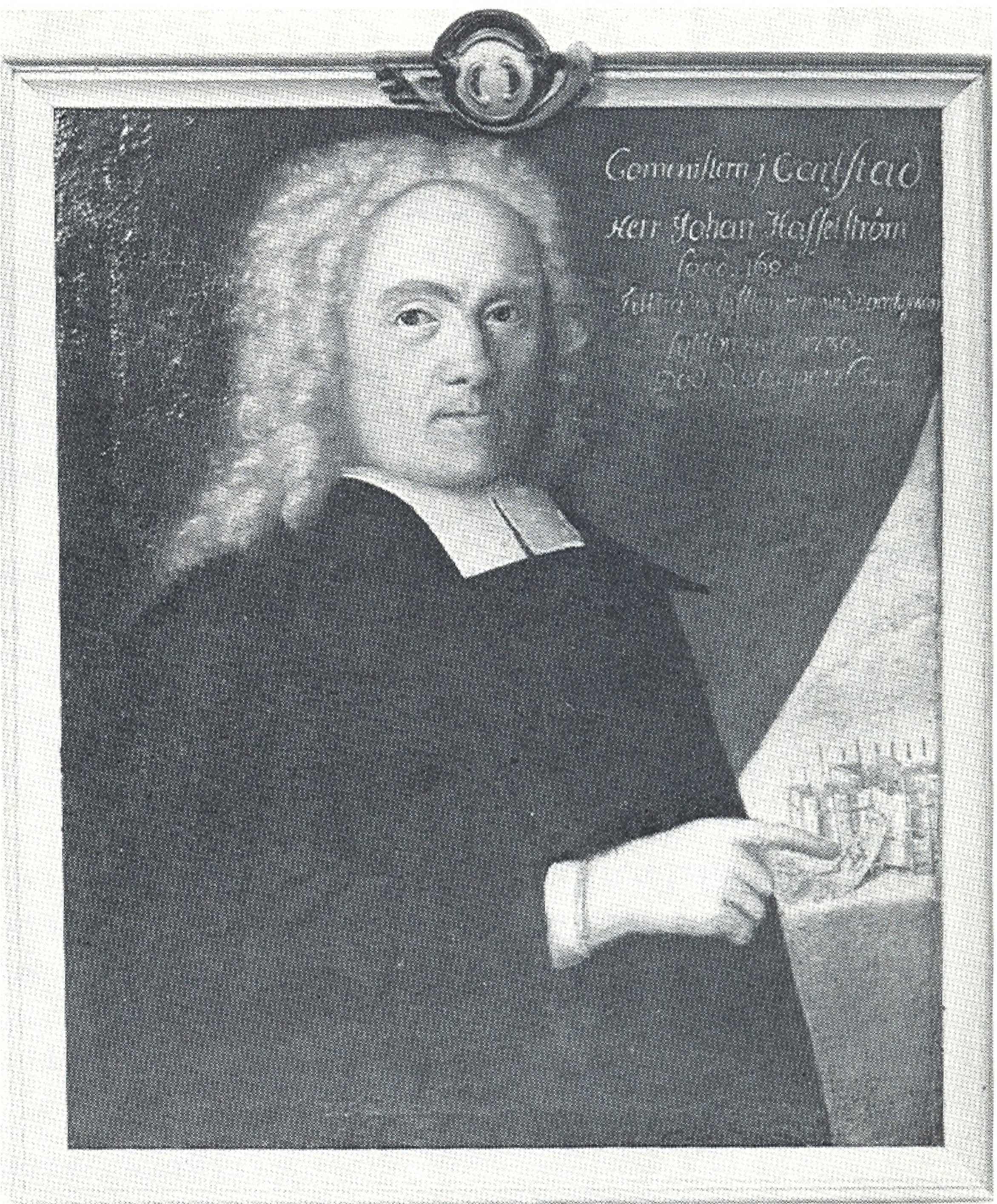 A painting of Johan Hasselström, a priest with the title domkyrkosyssloman, who worked for the construction of the cathedral of Karlstad. Today it hangs in the sacristy